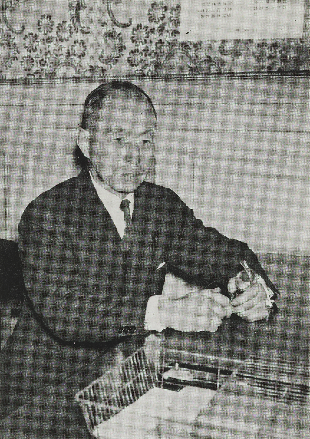 Portrait of Naotake Satō (佐藤尚武, 1882–1971)